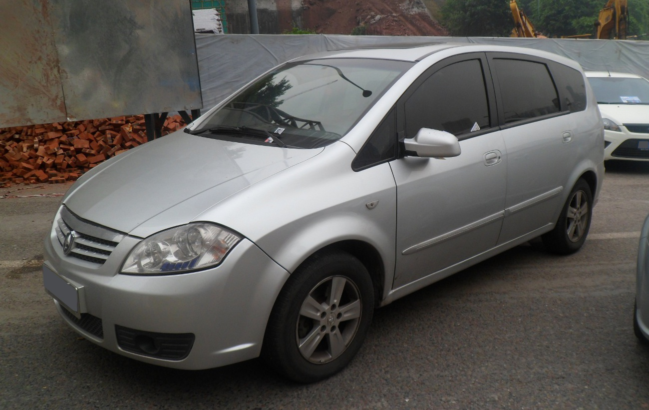 Chang'an Jiexun photographed in Chongqing, China.